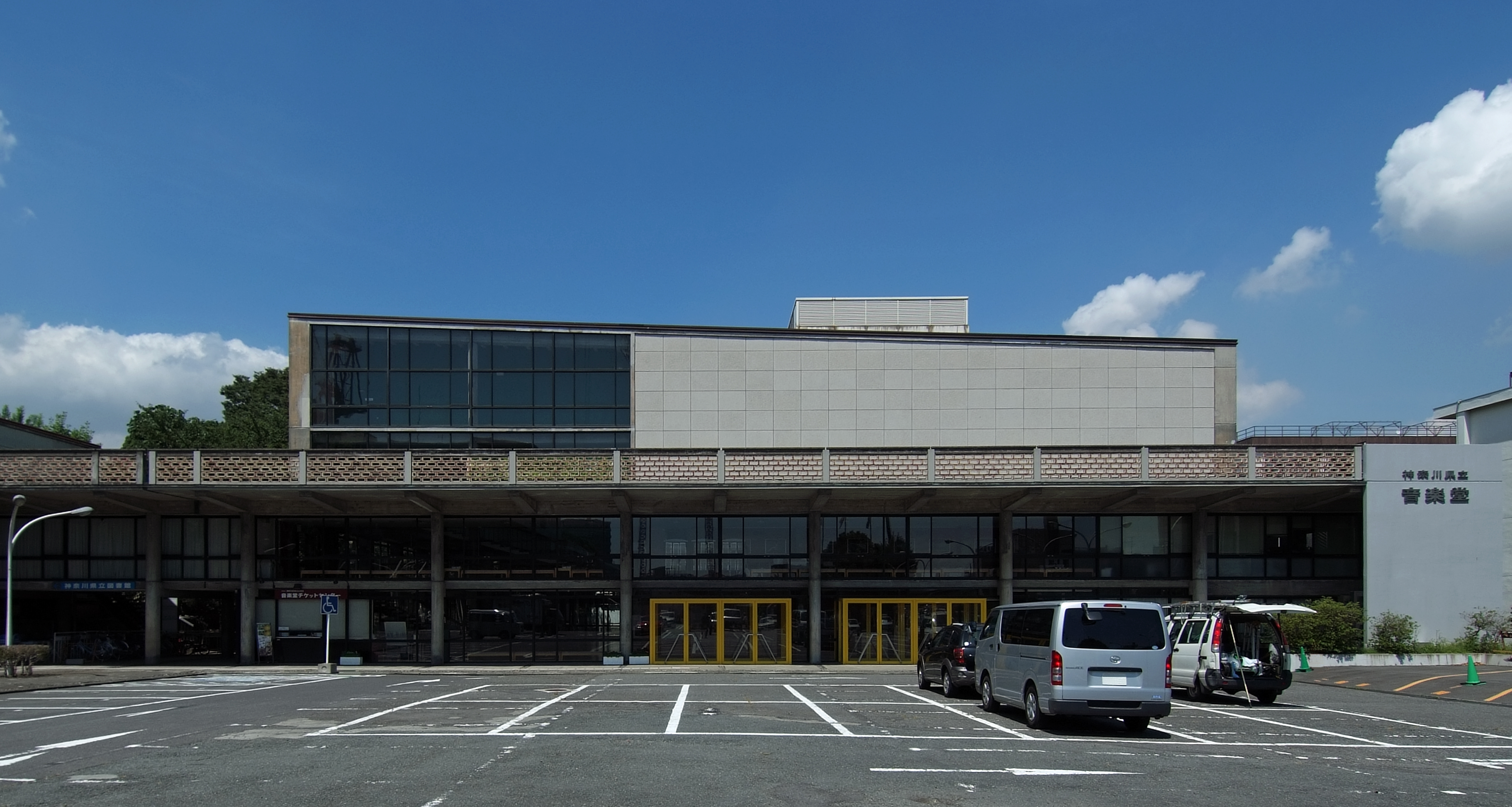 Kanagawa Concert Hall, Nishi-ku Yokohama, Kanagawa prefecture, Japan, designed by Kunio Maekawa in 1956.